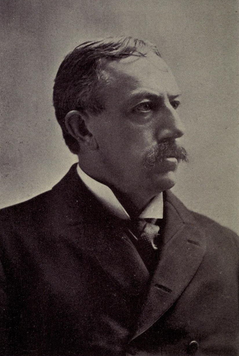 Picture of David Starr Jordan